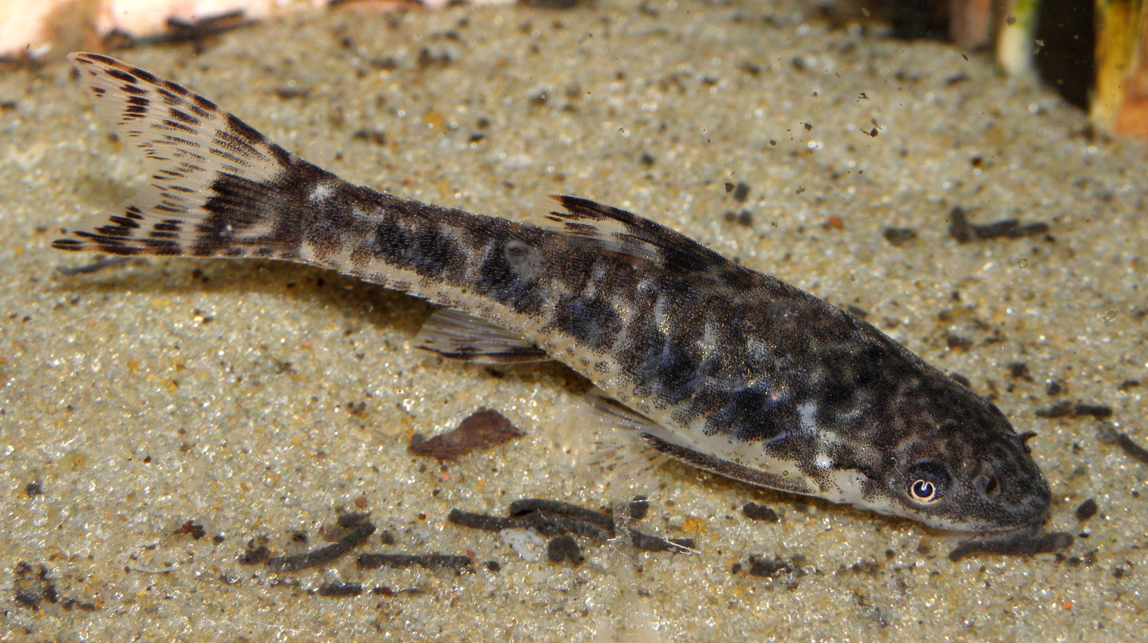 "Dwarf suckers" or "otos" (Otocinclus arnoldi).